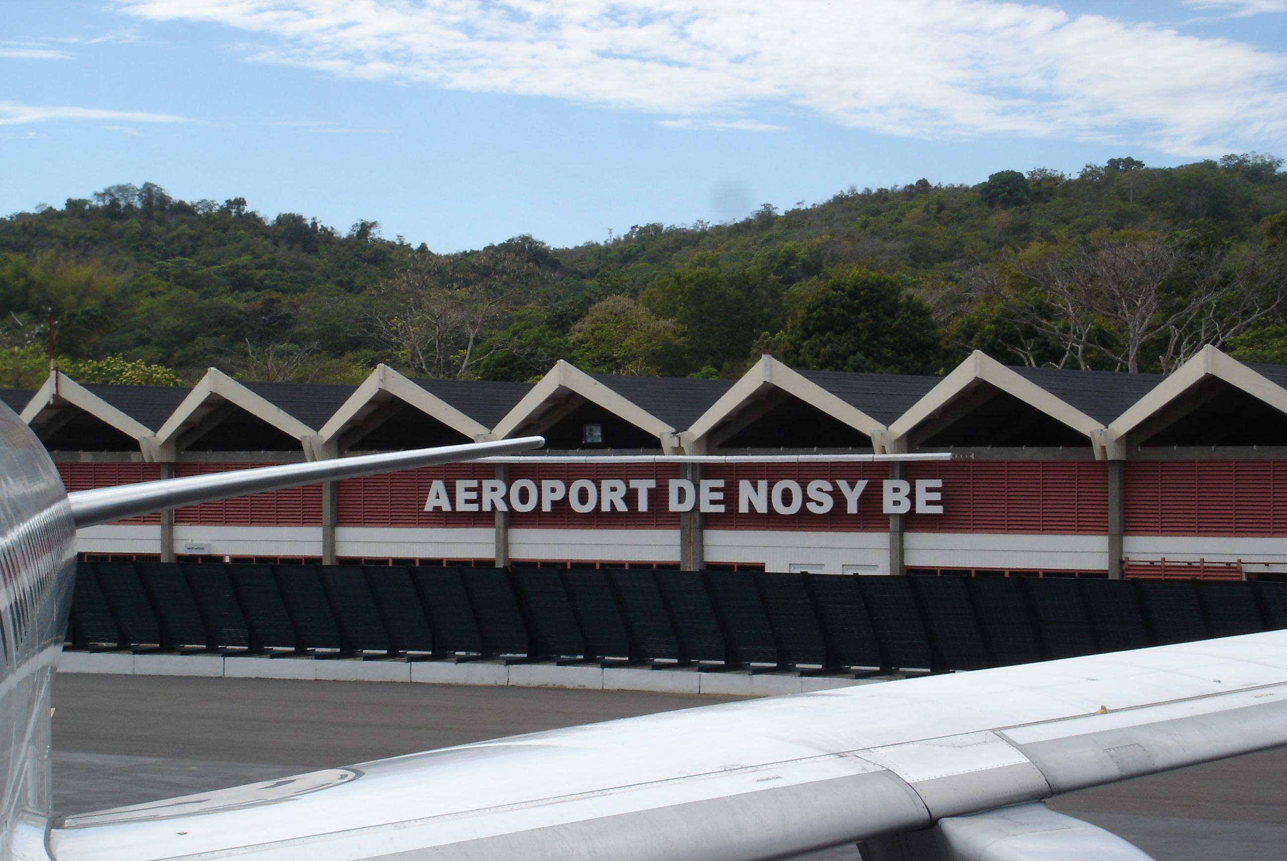 Nosy Be Aiprot, Madagascar.